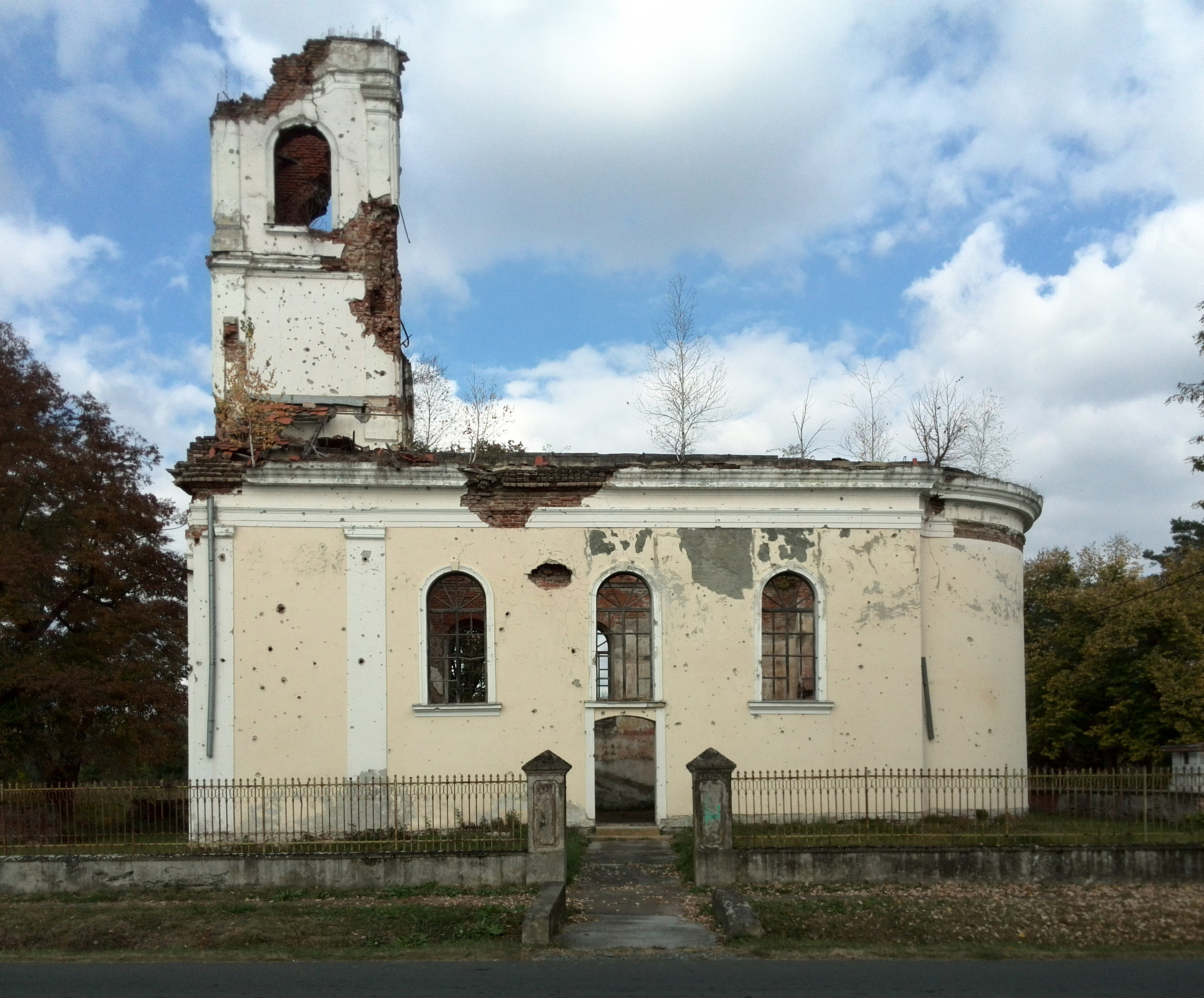 Medari (destroyed Serbian Orthodox church) in 2018. Srpski (latinica): Selo Medati kod Nove Gradiške-Okučana. Srušena pravoslavna crkva, 2018. godina